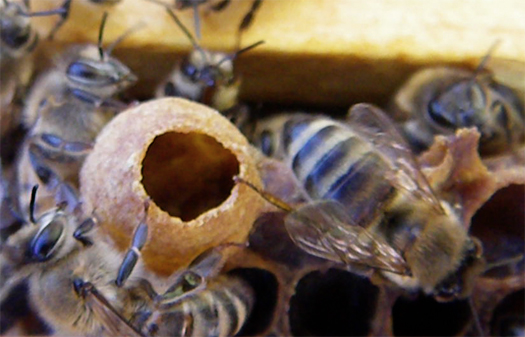 A queen cup built on the bottom of a hoffman frame in a langstroth hive. More photos looking at the difference between supercedure and swarm cells here.